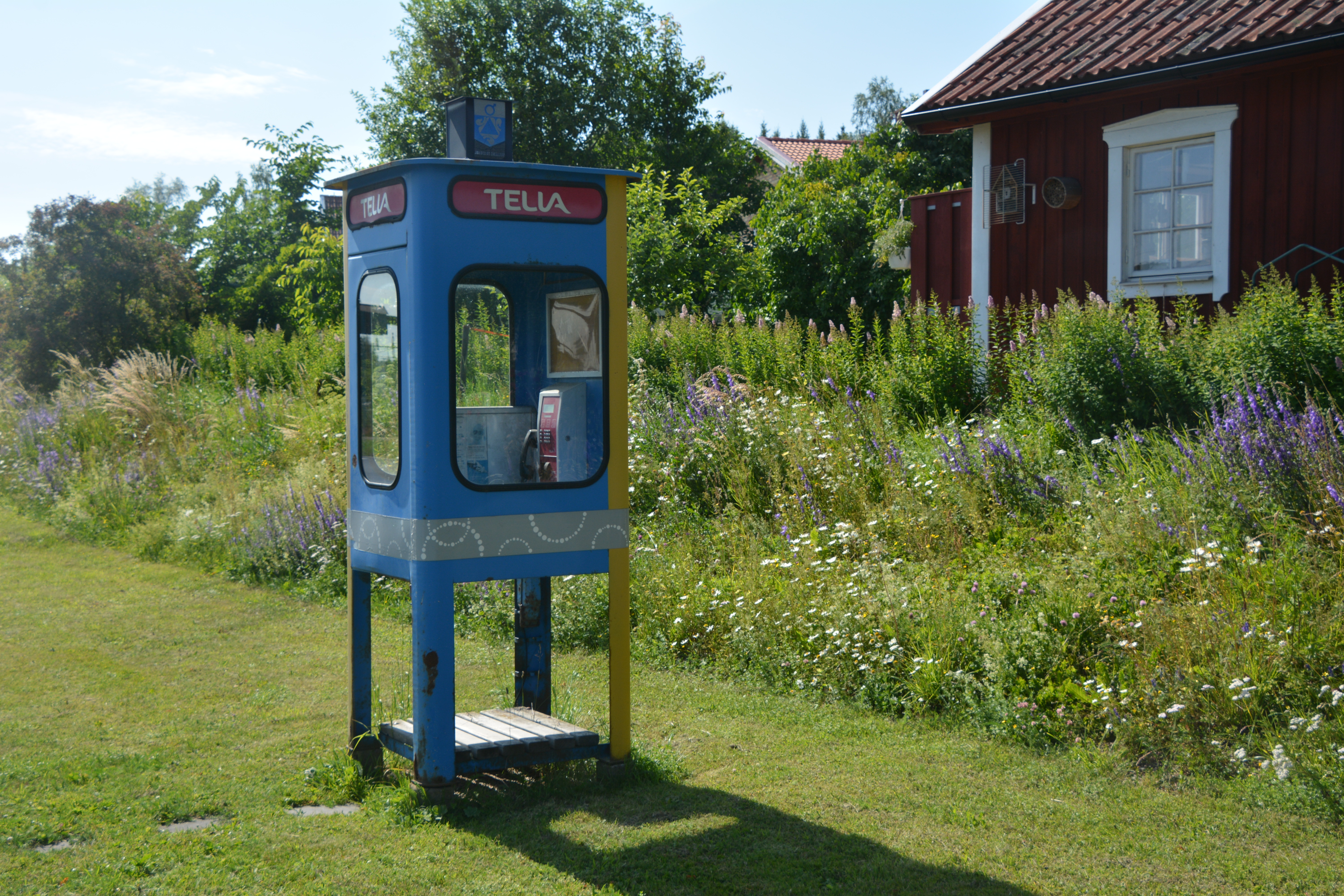 Telephone booth at Karbenning, Sweden